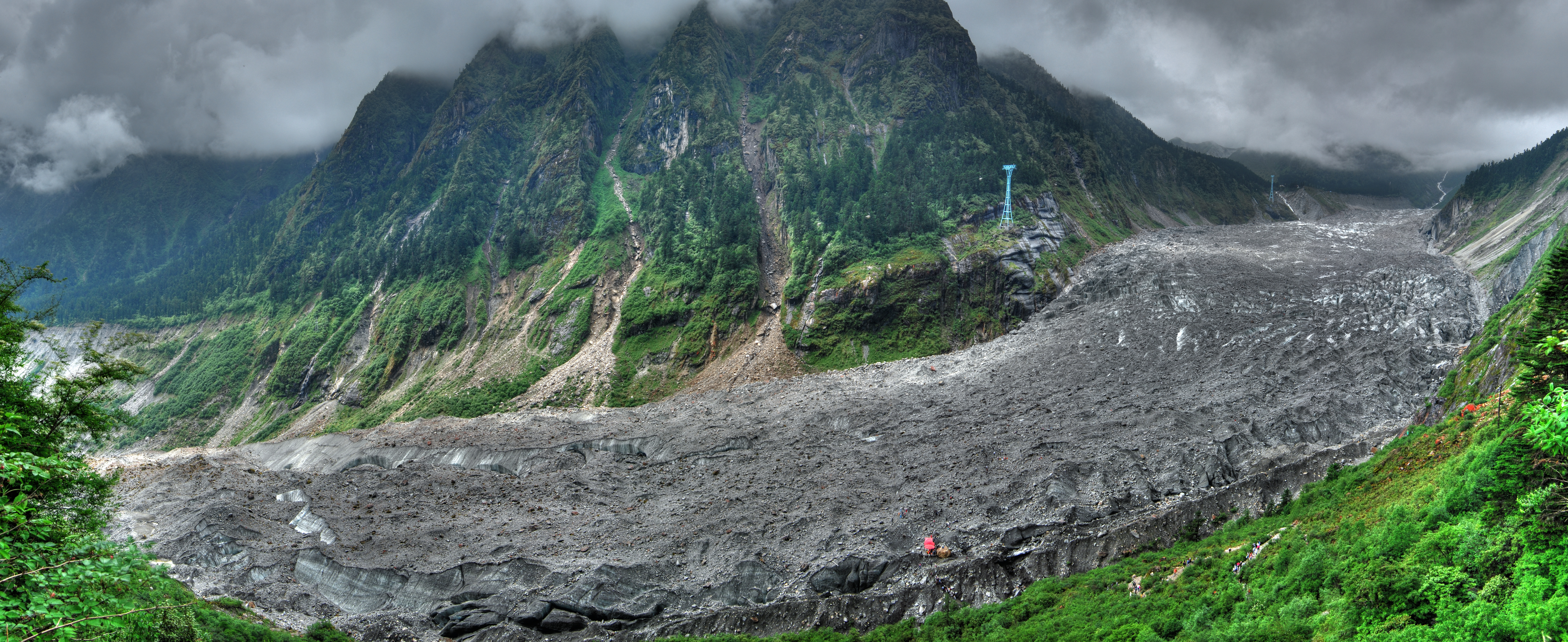 A panorama of the Hailuogou Glacier. Processed with HDR.